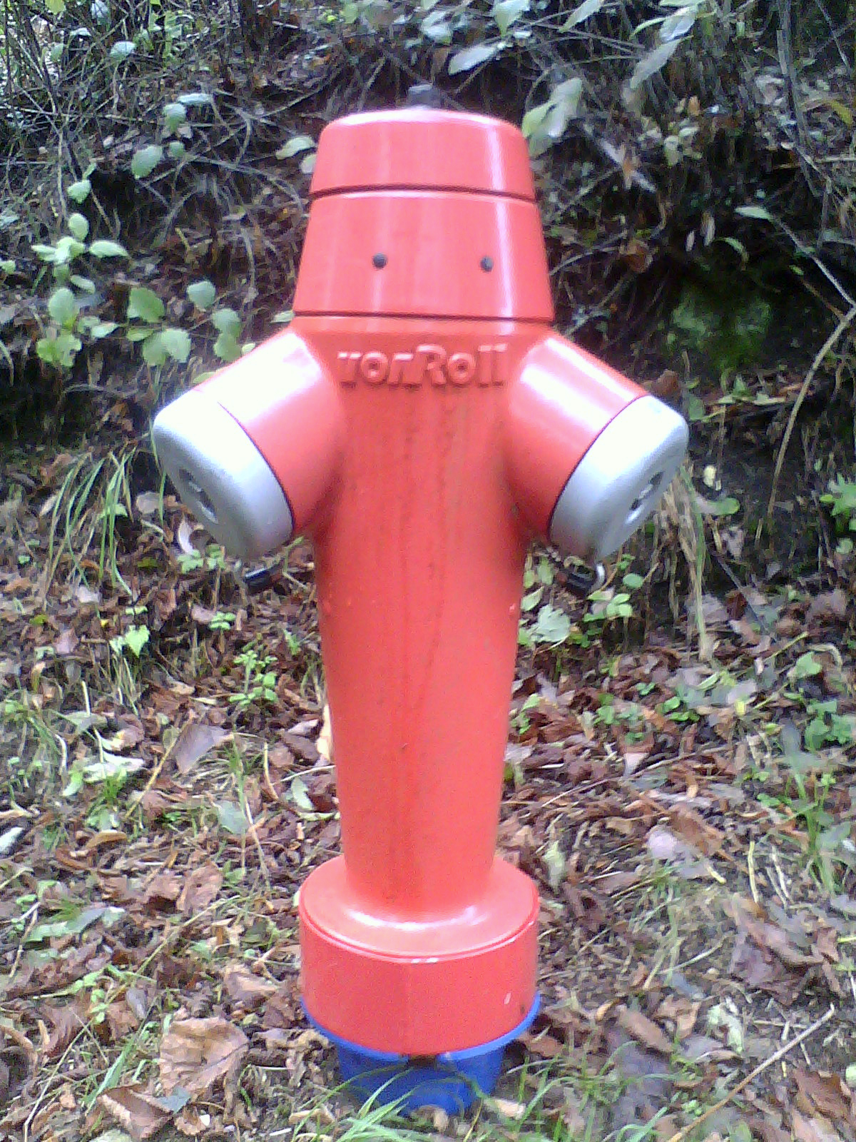 fire hydrant in Intragna, Switzerland, in forest between Casa Al Forno (Pila) and Intragna